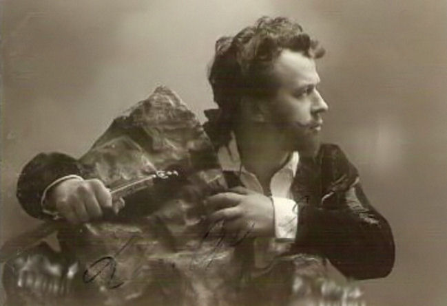 Italian operatic singer Fiorello Giraud (1868-1928) as Don Jose in George Bizet's 'Carmen'